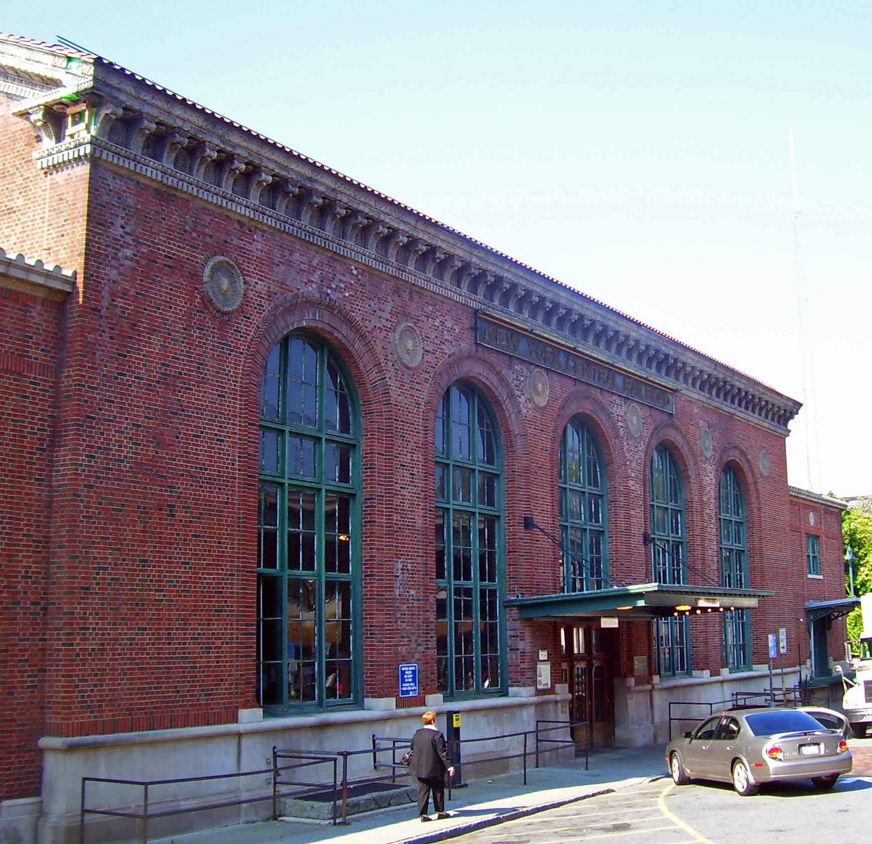 Front of train station in Poughkeepsie, NY, USA